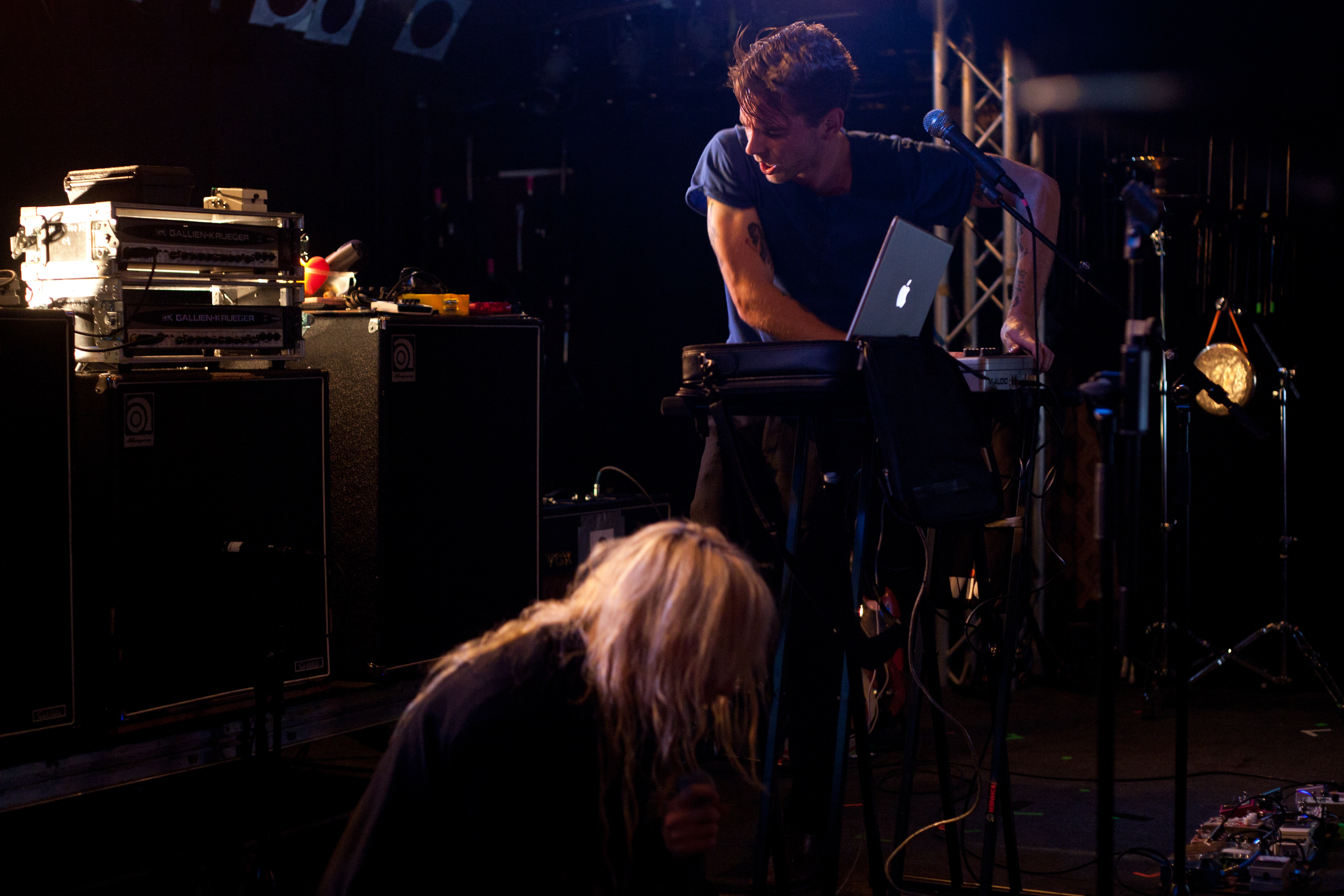 Zola Jesus (Nika Roza Danilova) and Freddy Ruppert of Former Ghosts performing at Debaser Slussen in Stockholm, Sweden